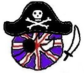 Britball the Pirate. An adventurous countryball.